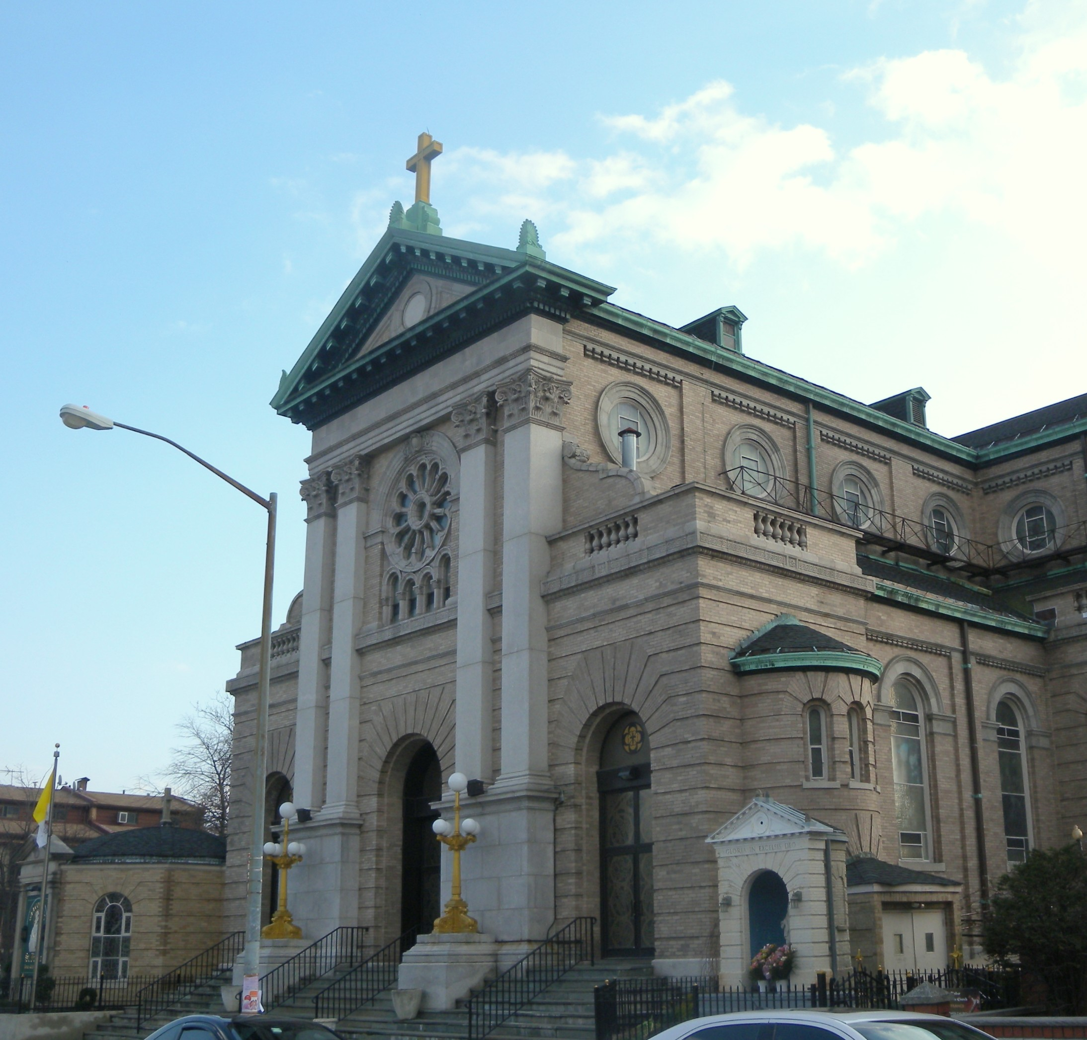 Looking southeast across Benson Avenue from Bay 19th Street at Saint Finbar Church on a mostly sunny afternoon.